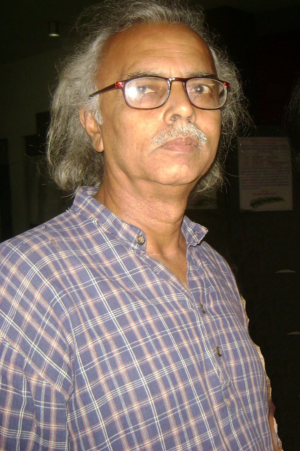 বাণিজ্য অনুষদ, ঢাবি।